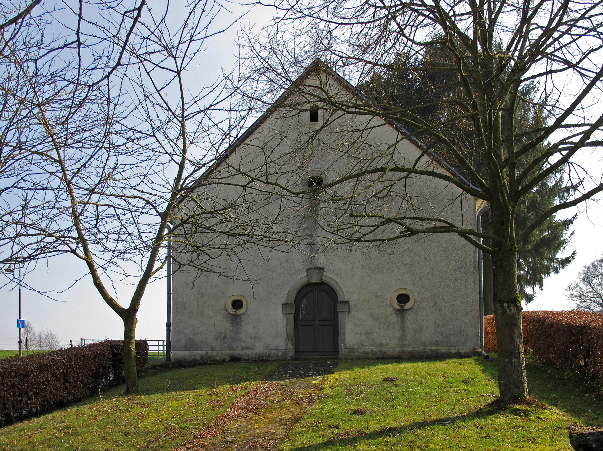 Chapel of Schweich, Luxembourg